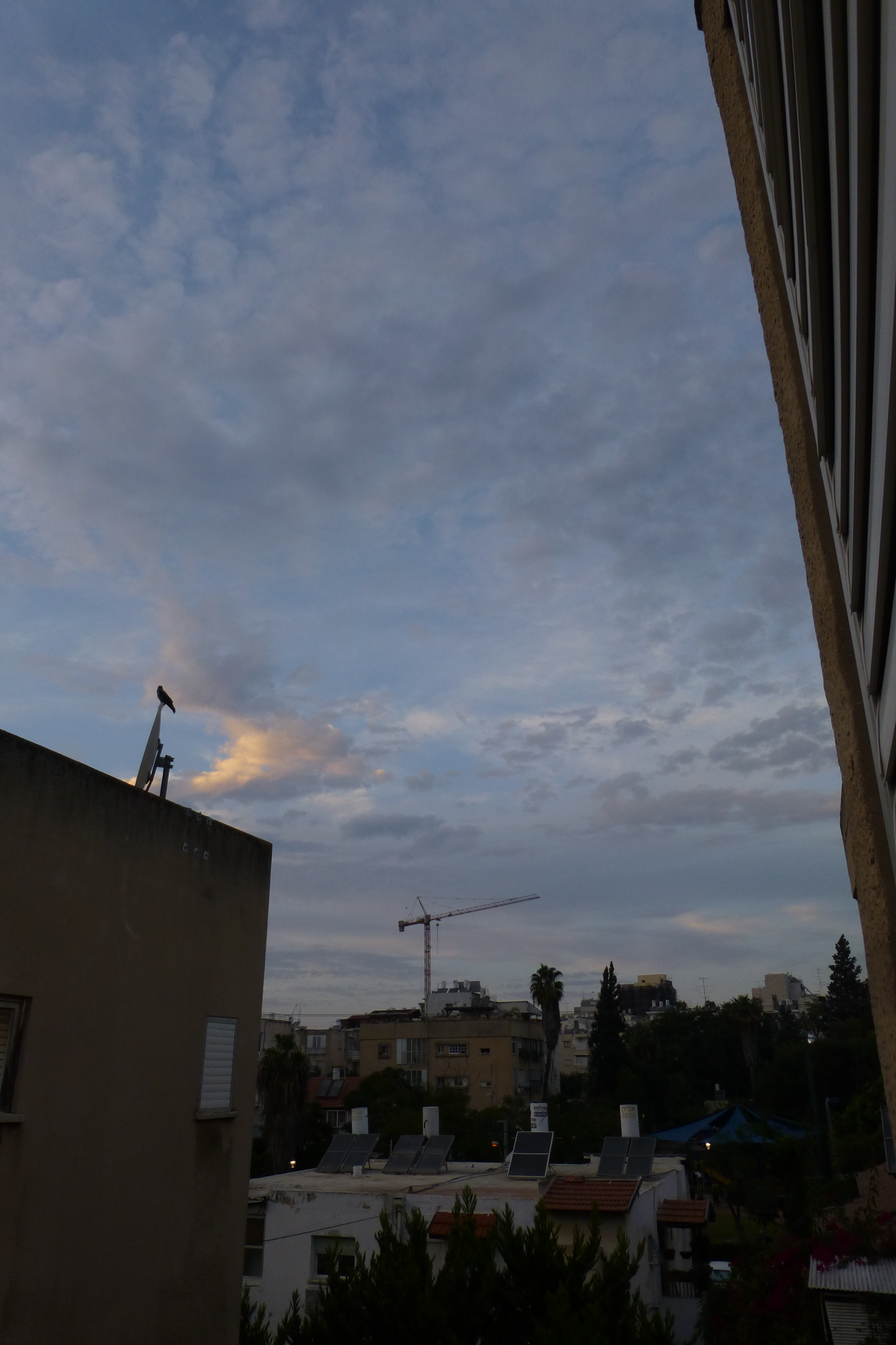 Crow in Ramat Gan